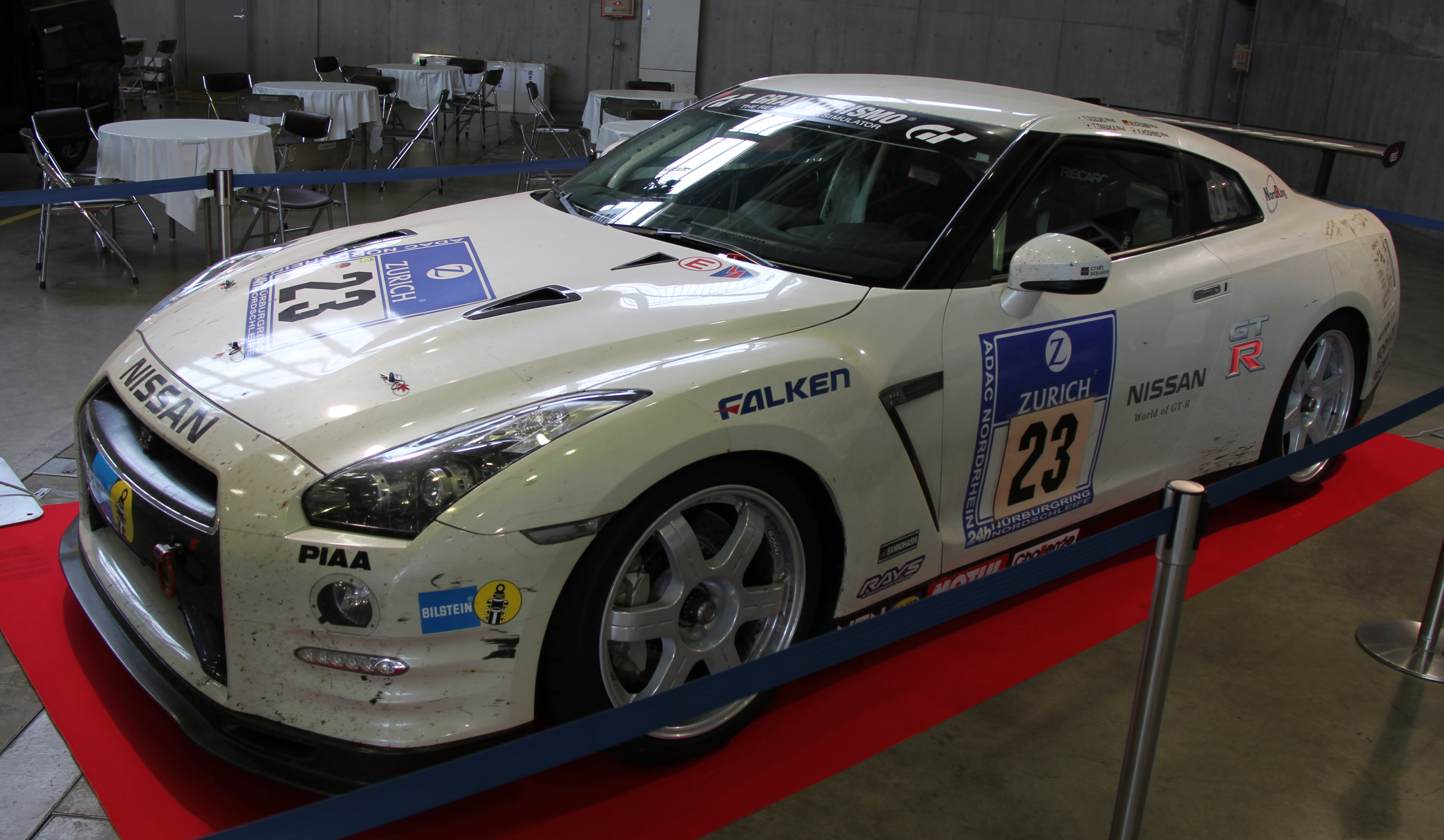 Nissan GT-R 2012 ADAC Zurich 24h-Rennen #23